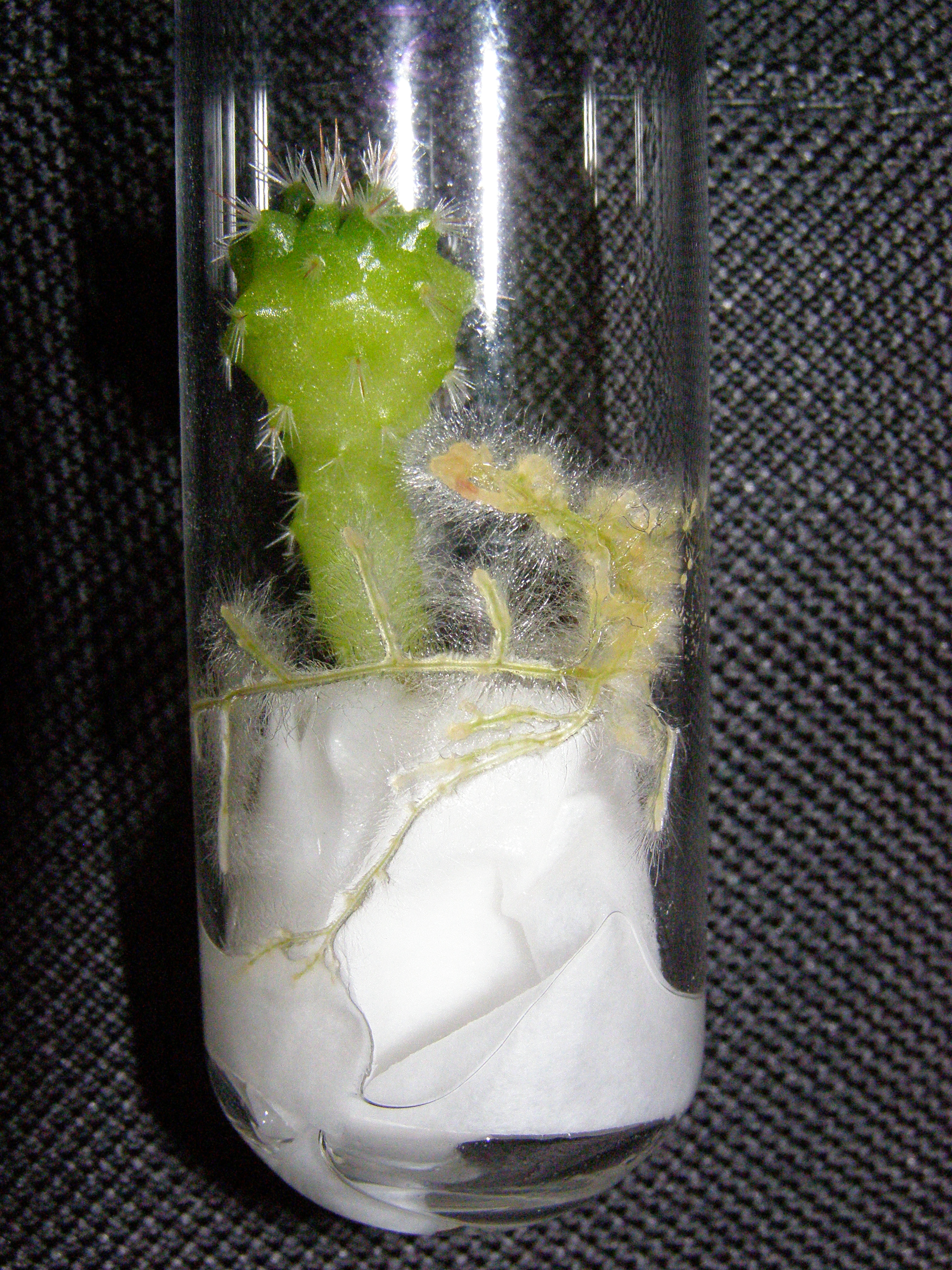 Rich root hair formation in Mammillaria miegiana. Prague, Czech republic.